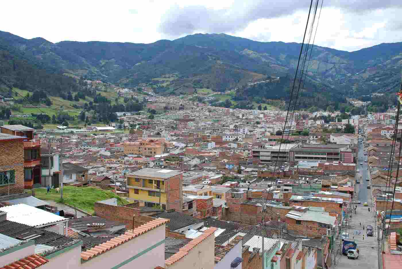 Pamplona, northern Colombia